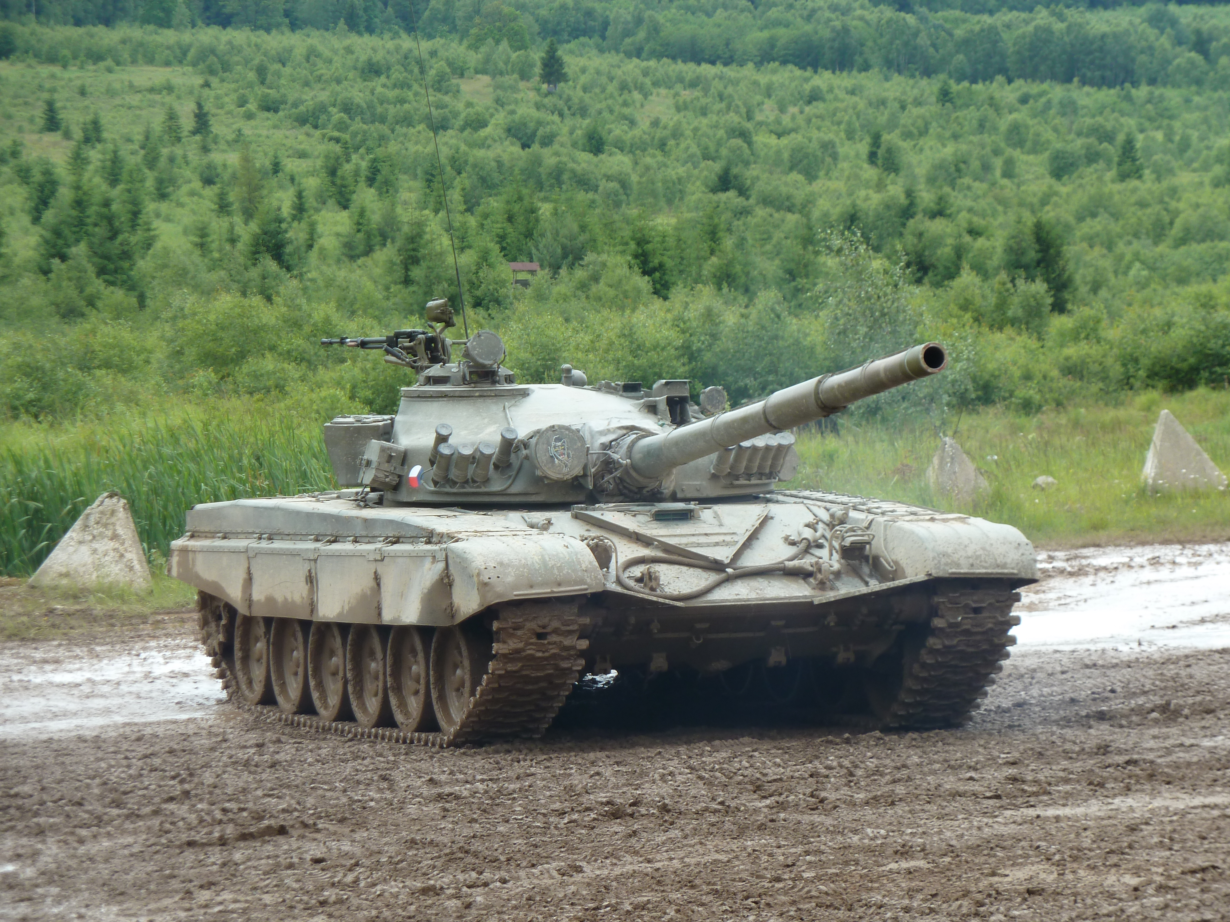 BAHNA 2011 - Presentation of Czech Army; Brdy, Czech Republic